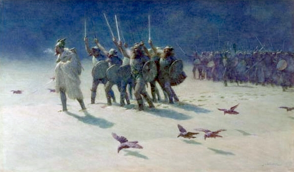 The Ravager, a painting showing Vikings in cold weather.